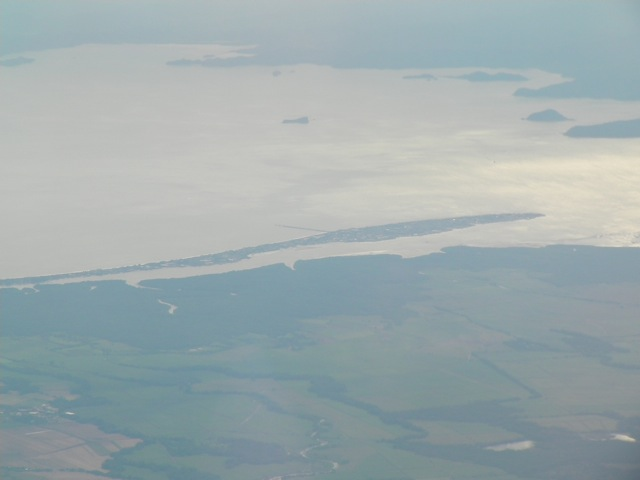 Puntarenas as seen from a plane. na, Puntarenas, Costa Rica.